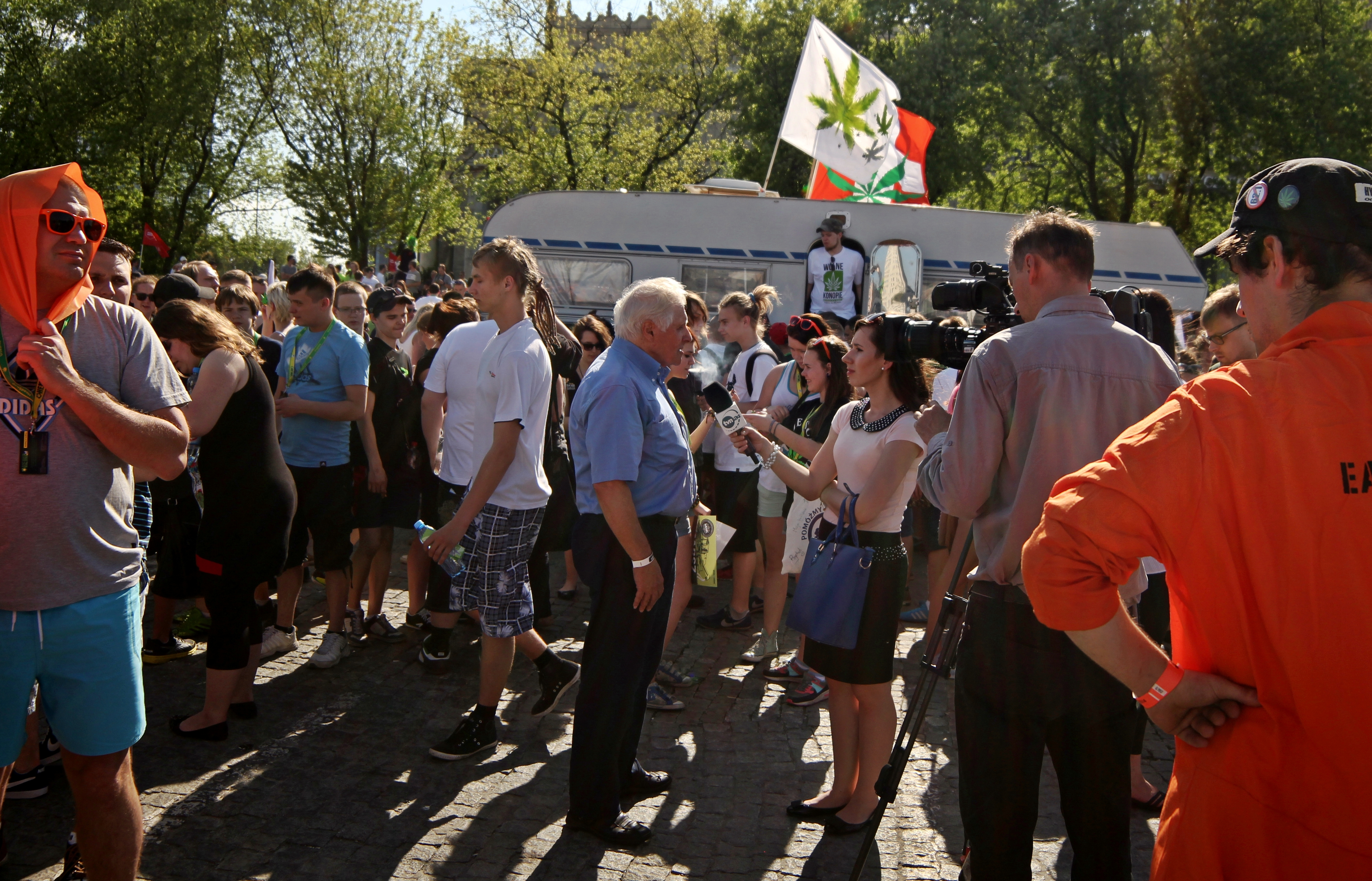 Polish psychopharmacologist Jerzy Vetulani giving an interview to the television during the Cannabis March in Warsaw.